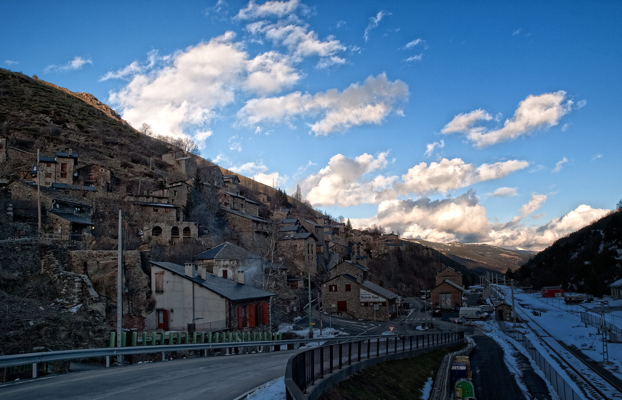 Toses general landscape (Catalonia, Spain)